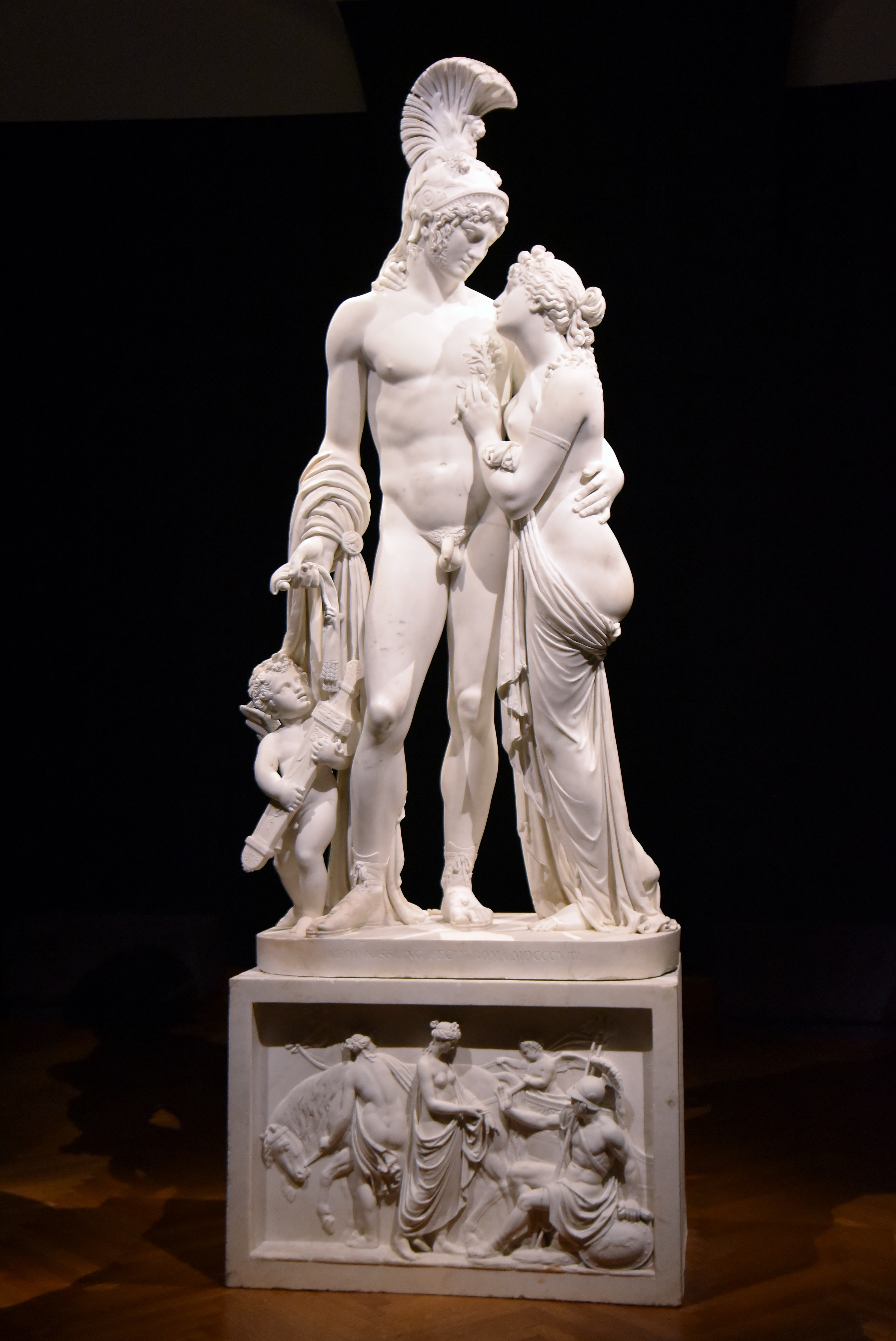 Front view of Mars und Venus mit Amor (Mars and Venus with Cupid) (1809) by Leopold Kiesling, part of the collection of the Österreichische Galerie Belvedere on display at the Upper Belvedere, Vienna